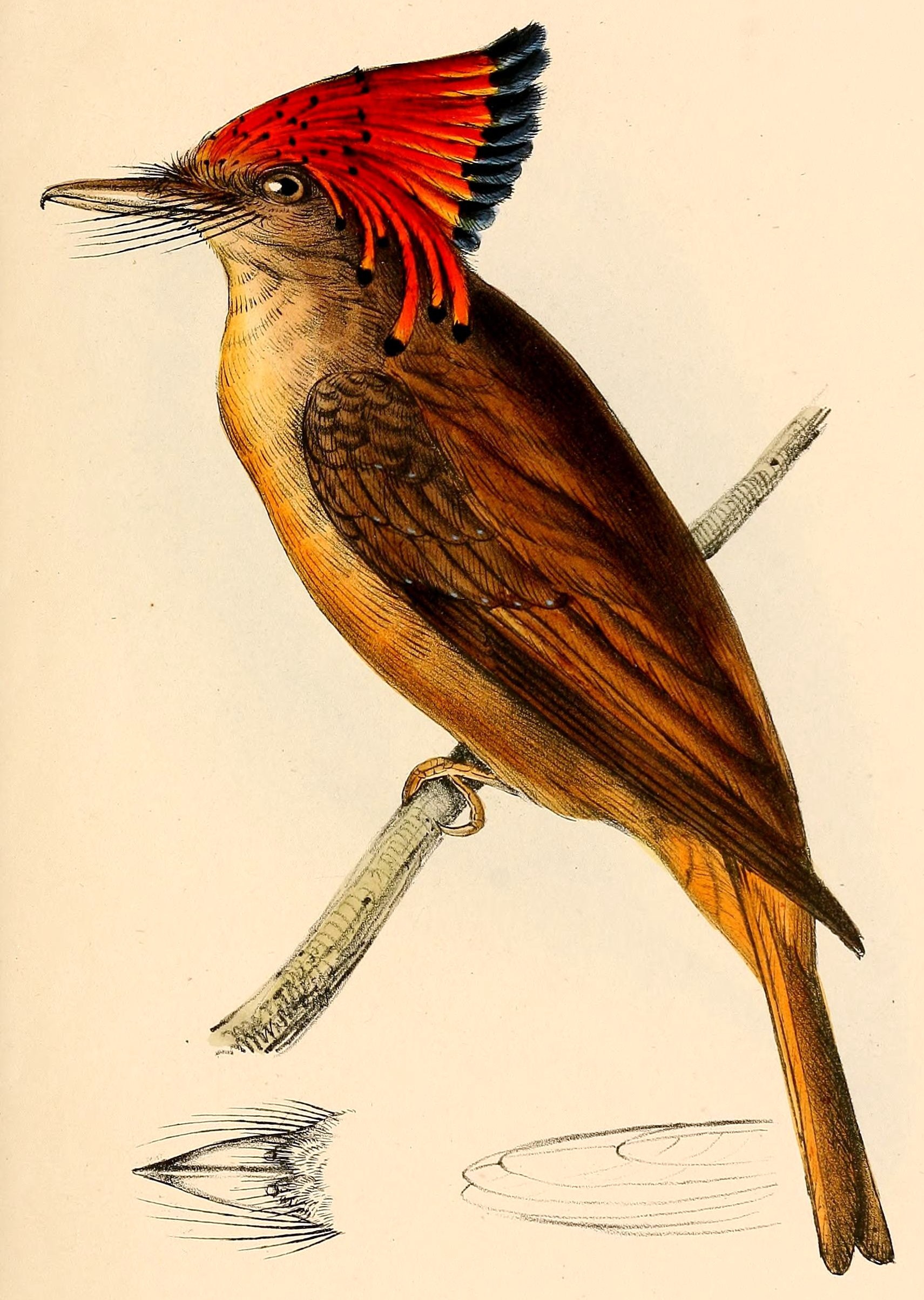 Megalophus regius = Onychorhynchus coronatus coronatus (Subspecies of Amazonian Royal Flycatcher)